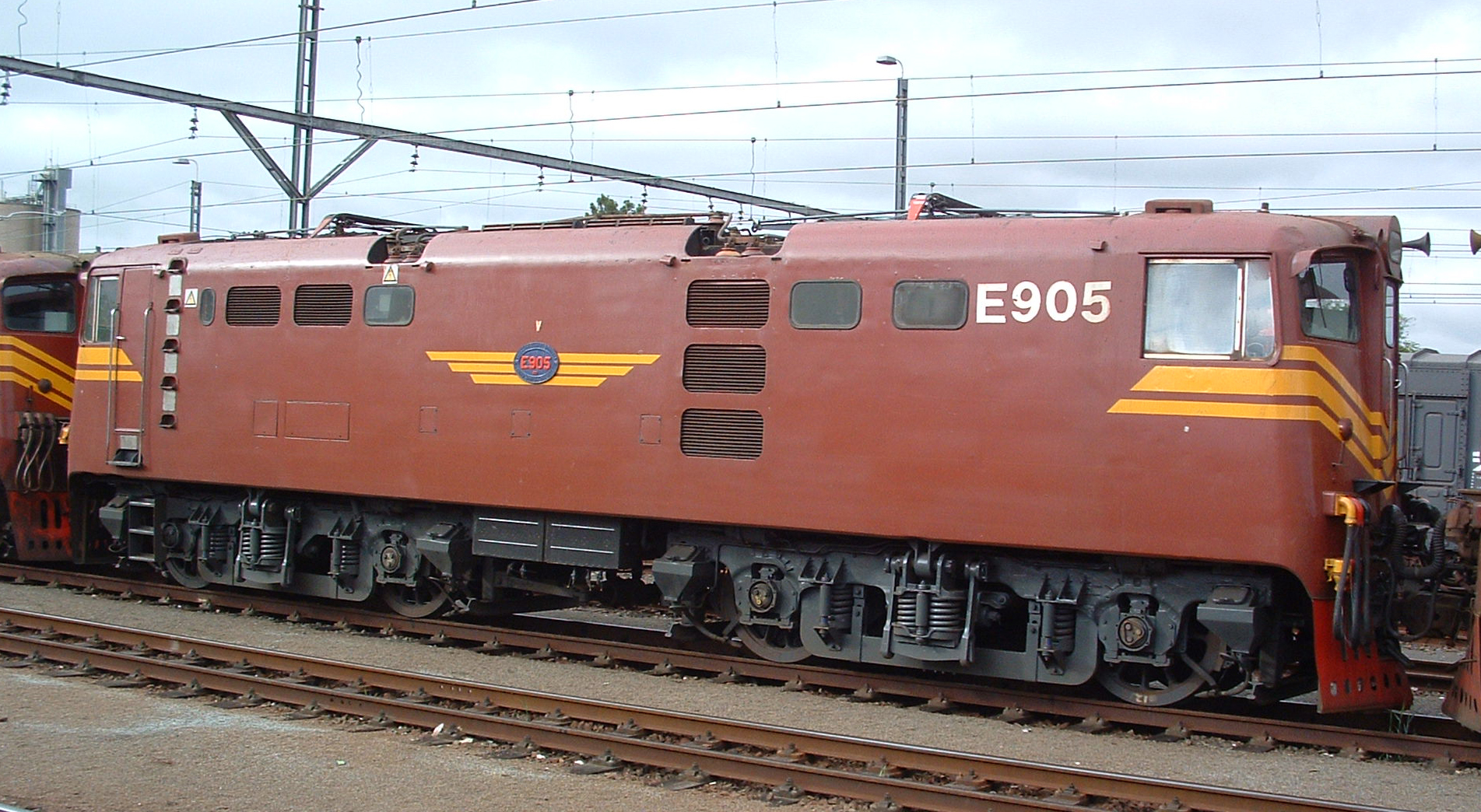 SAR Class 5E1 Series 4 E905 Location: Harrismith, Free State